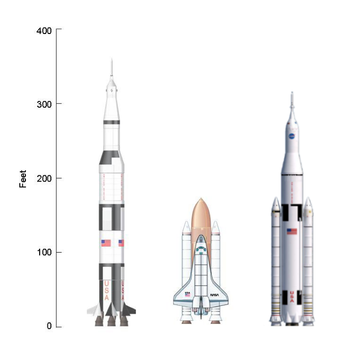 Comparison of the Saturn V, Space Shuttle, and SLS Block I